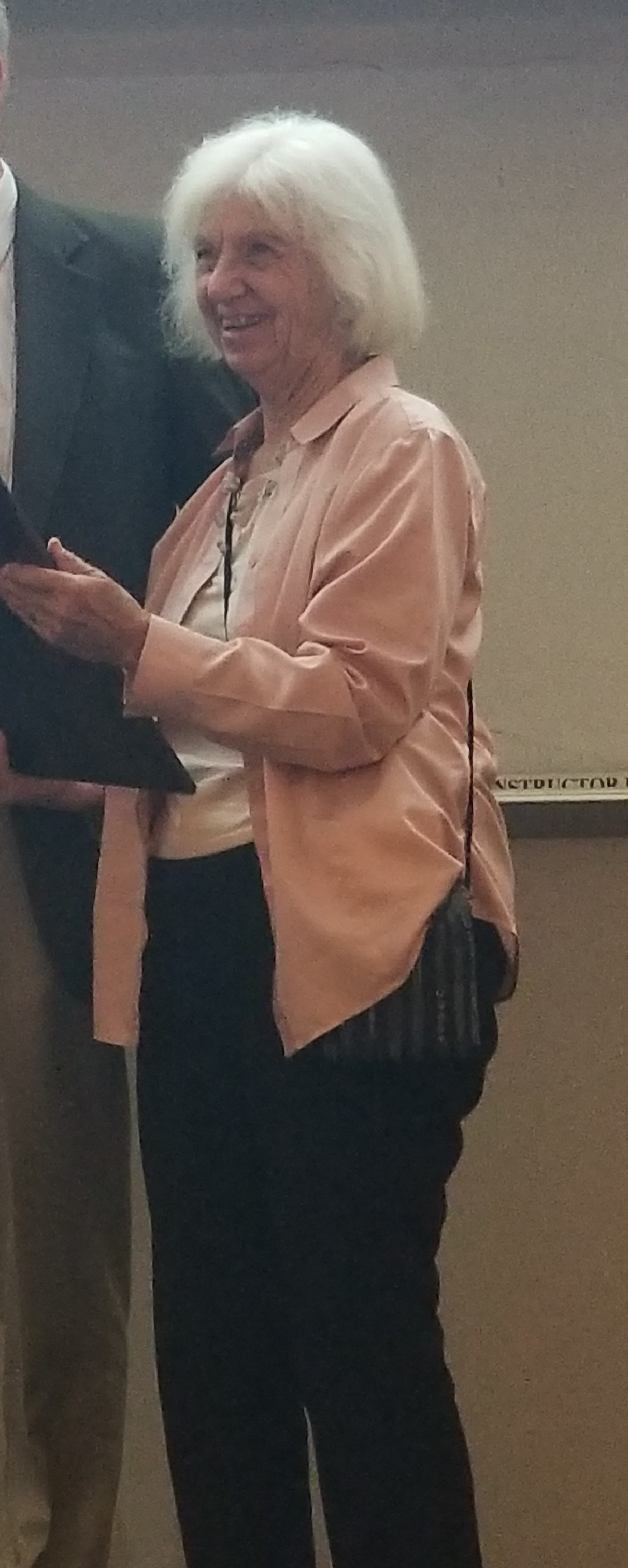 Rowena Matthews during the Rowena Matthews lectureship in Biological Chemistry at the University of Michigan, Ann Arbor